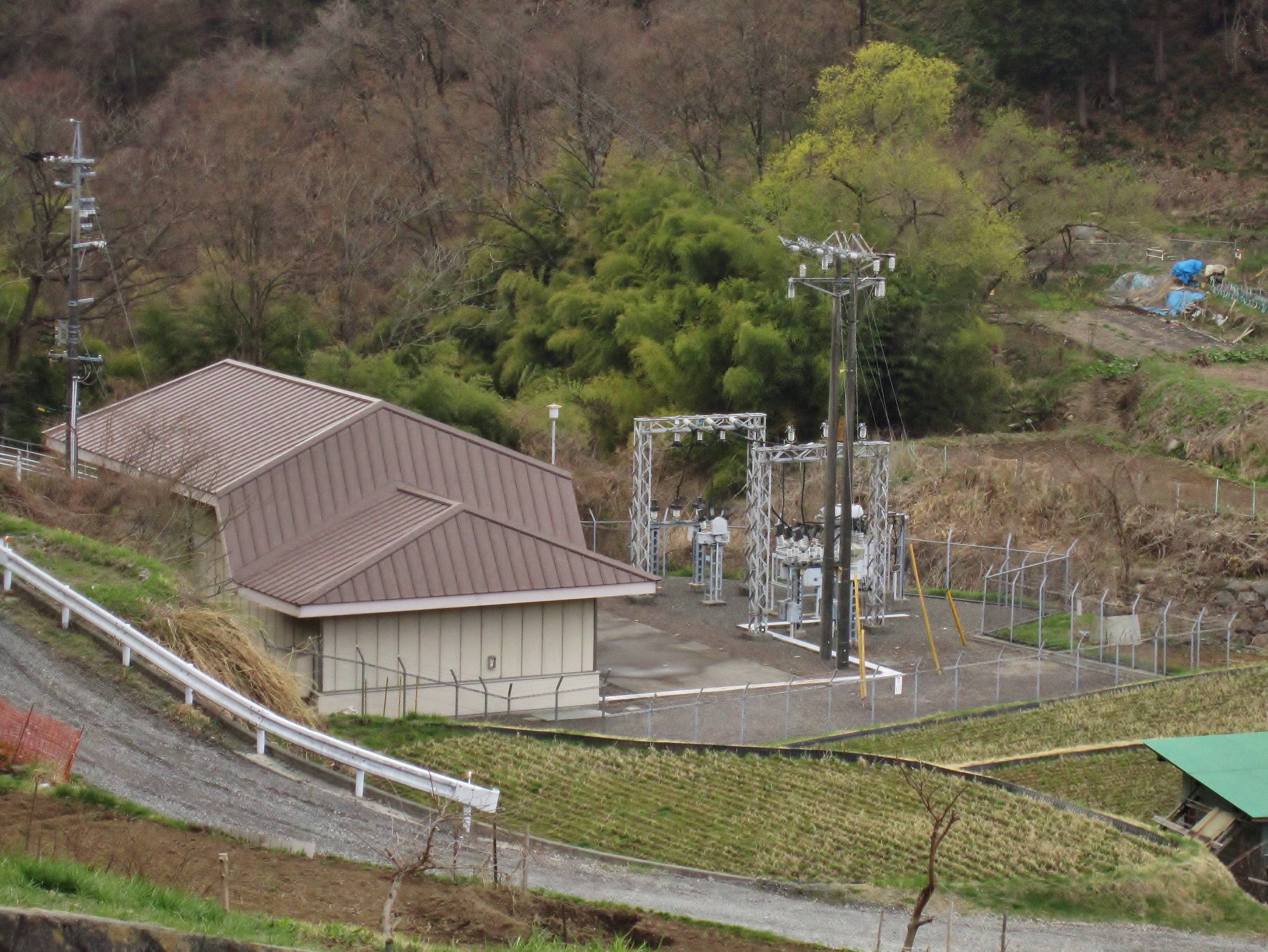 Togawa power station.